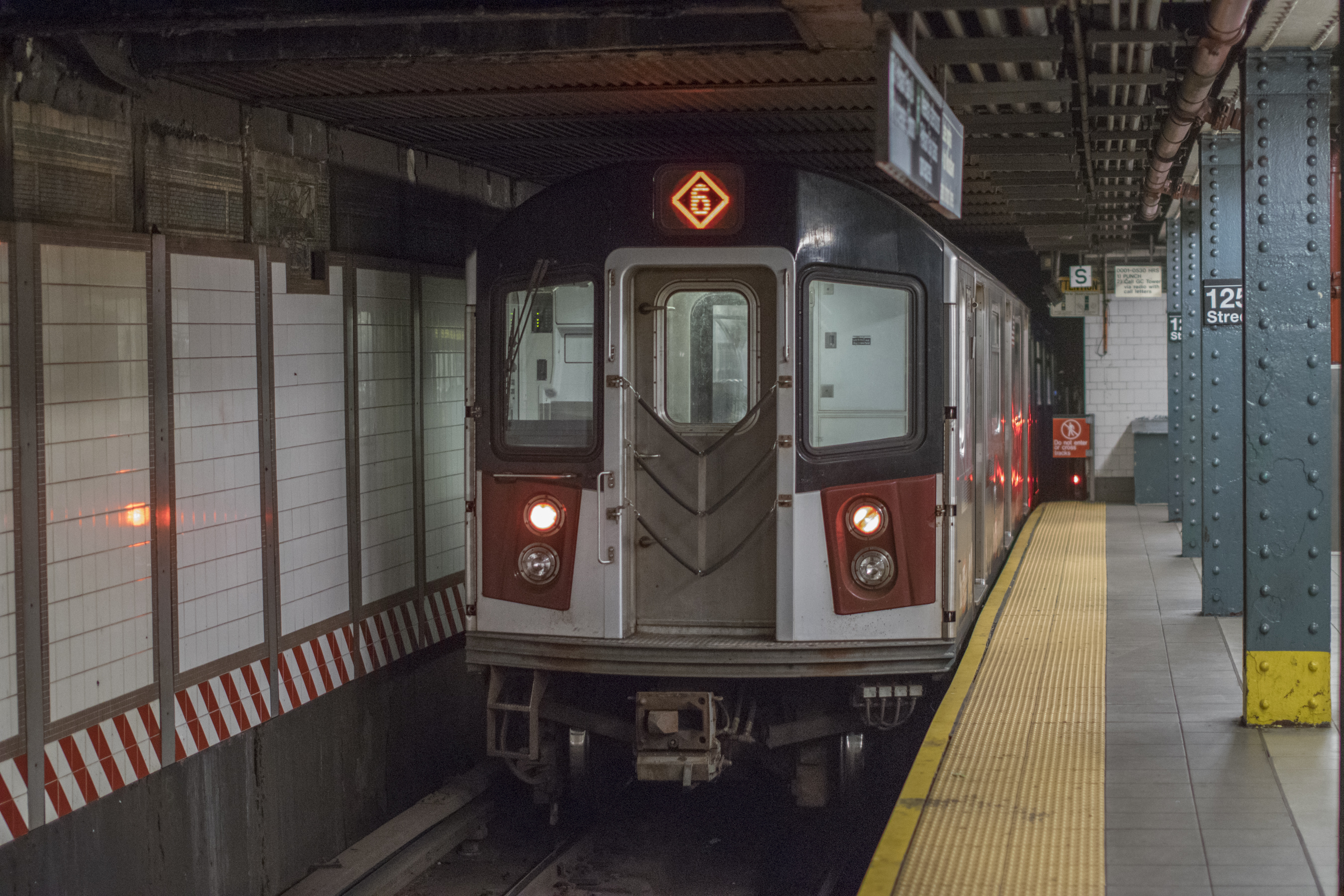 A train consisting of Kawasaki R142As leaves 125th Street en route to Pelham Bay Park on the 6 Train.